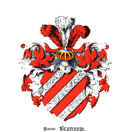 von Brunnow CoA